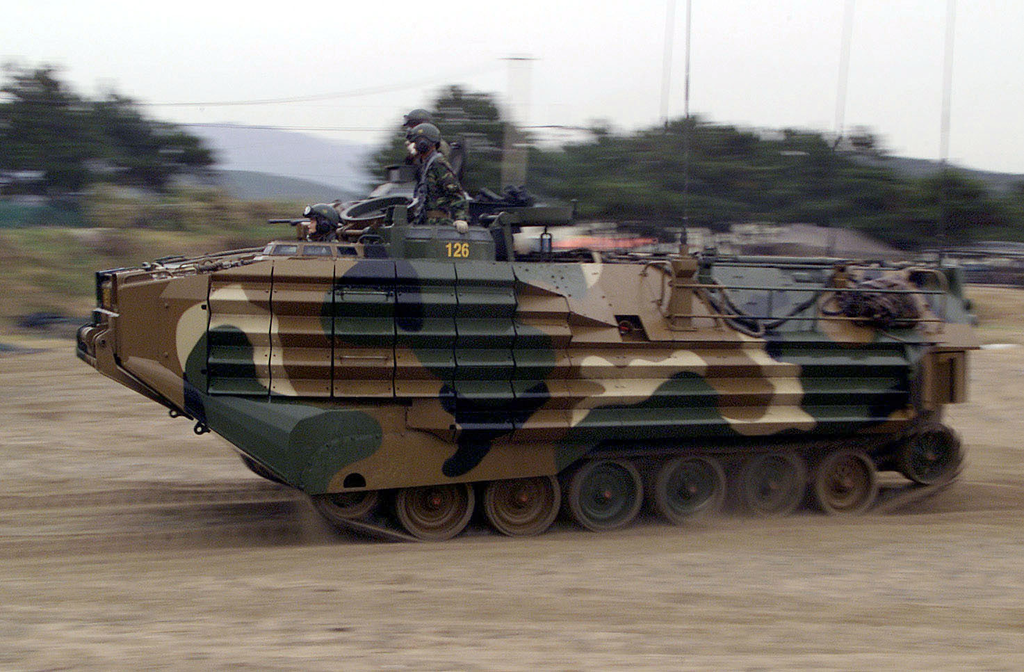 Republic of Korea Marines aboard a US Made AAV7A1 Amphibious Assault Vehicle rushes the beach at Tak San Ri Beach near Pohang, South Korea, in support of Exercise FOAL EAGLE 2000.